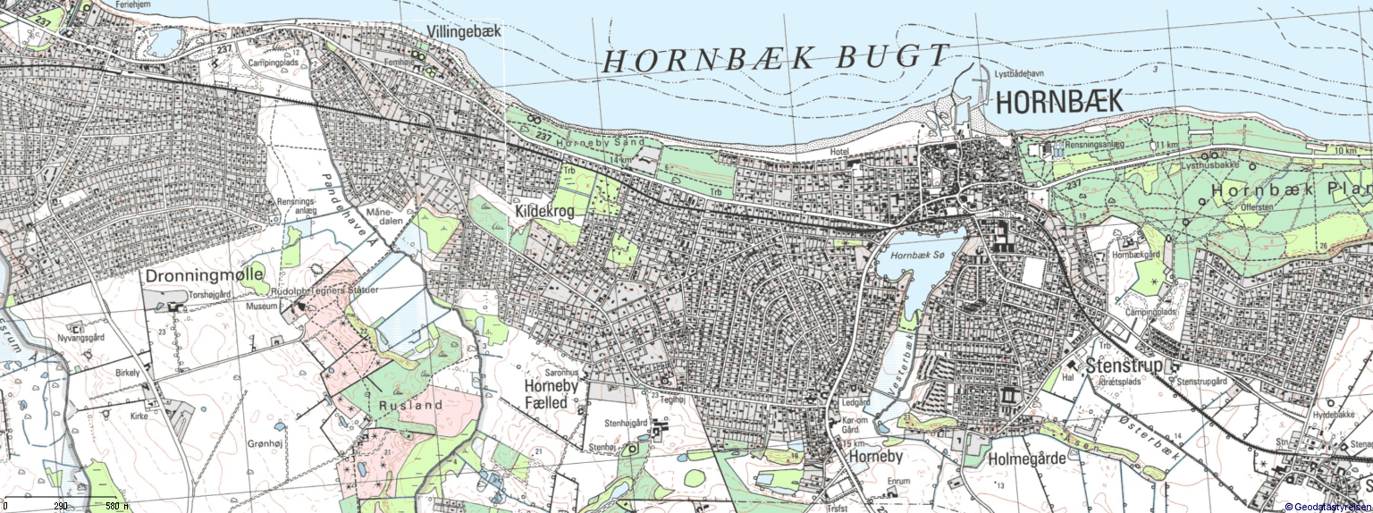 Hornbæk 2001